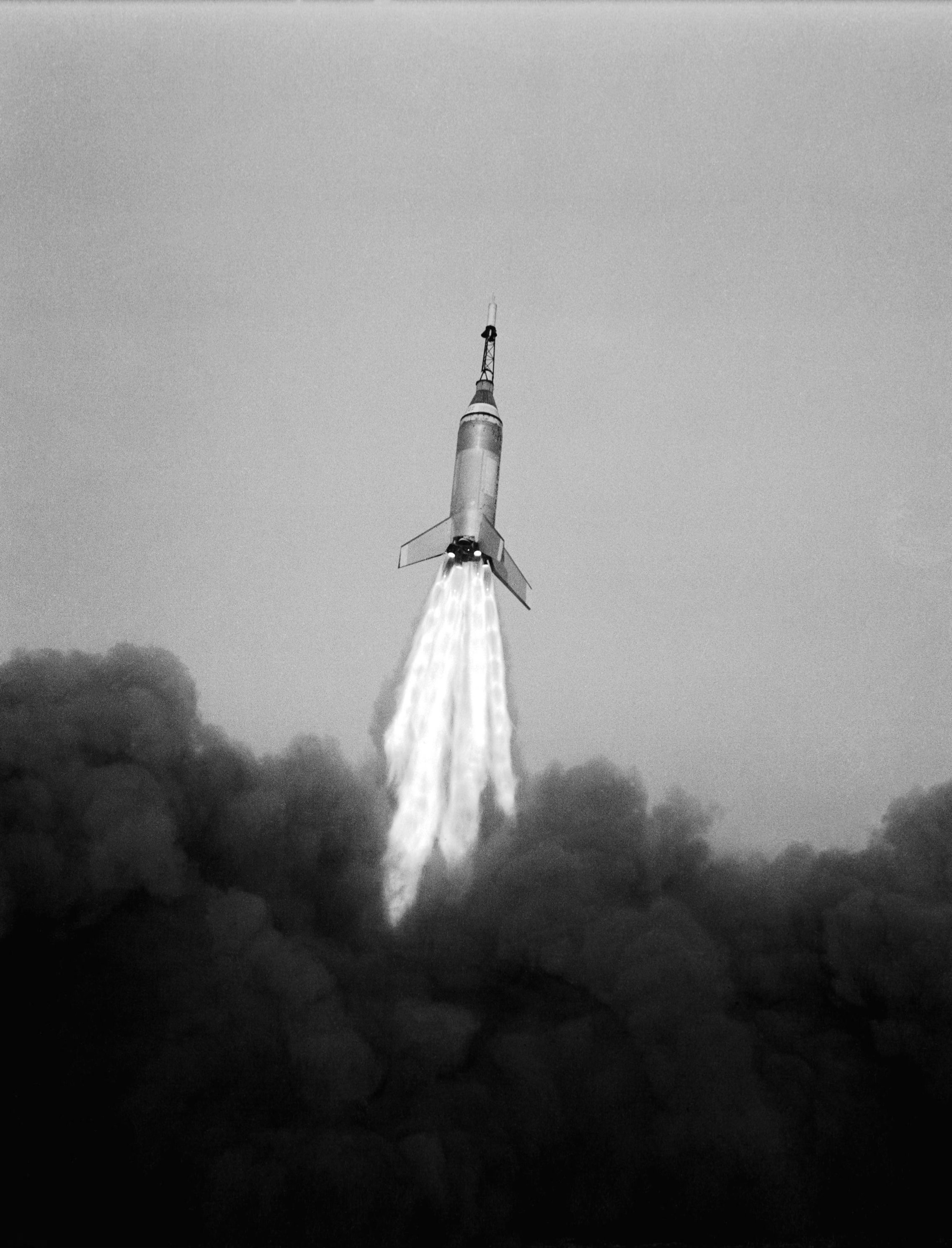 Launching of the LJ6 Little Joe on Oct. 4, 1959 took place at Wallops Island, Va. This was the first attempt to launch an instrumented capsule with a Little Joe booster. Only the LJ1A and the LJ6 used the space metal/chevron plates as heat reflector shields, as they kept shattering.